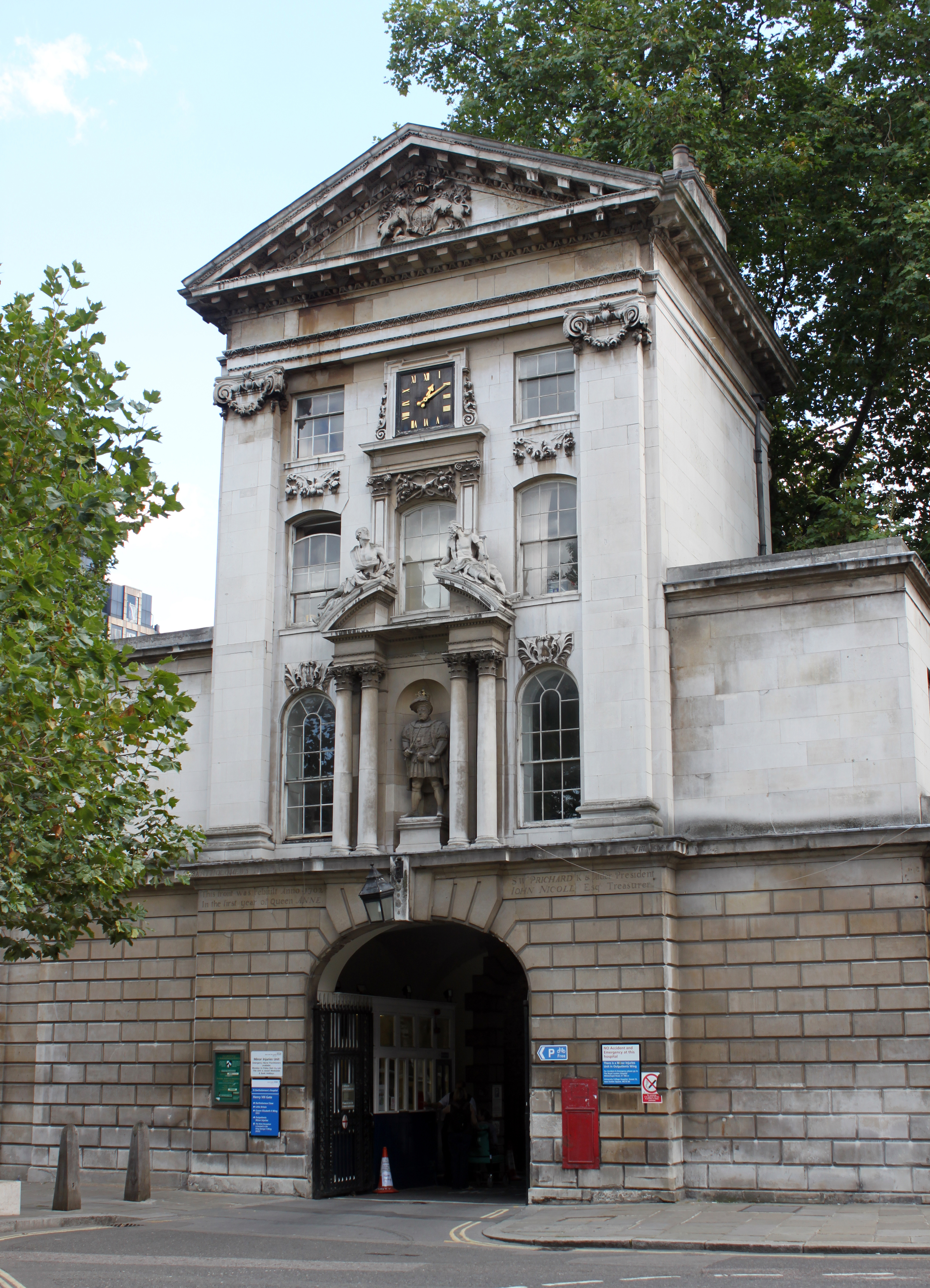 Image of Barts main entrance, the Henry VIII Gate